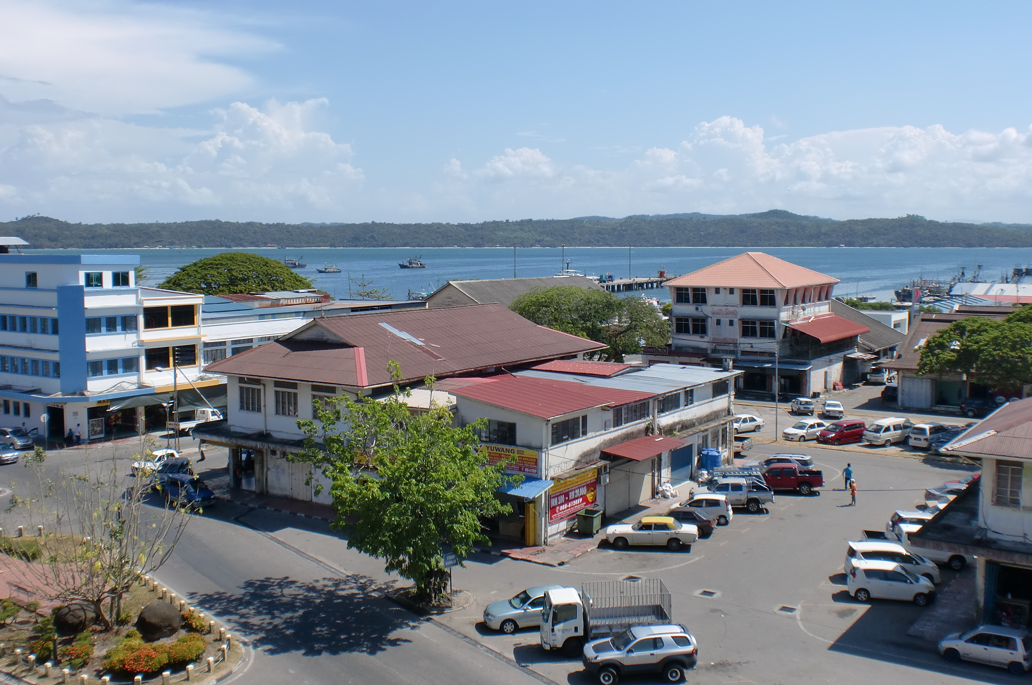 View of downtown Kudat in Sabah, Malaysia.